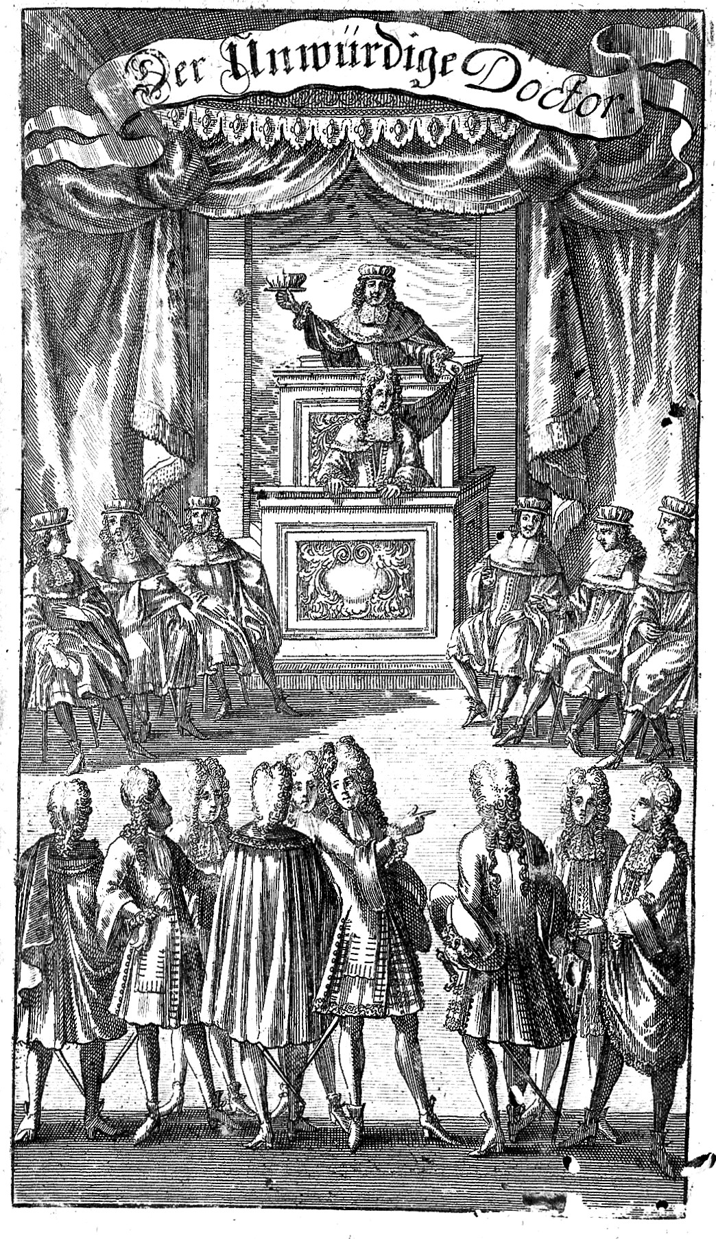 Frontispiece Rare Books Keywords: Johann Christoph von Ettner